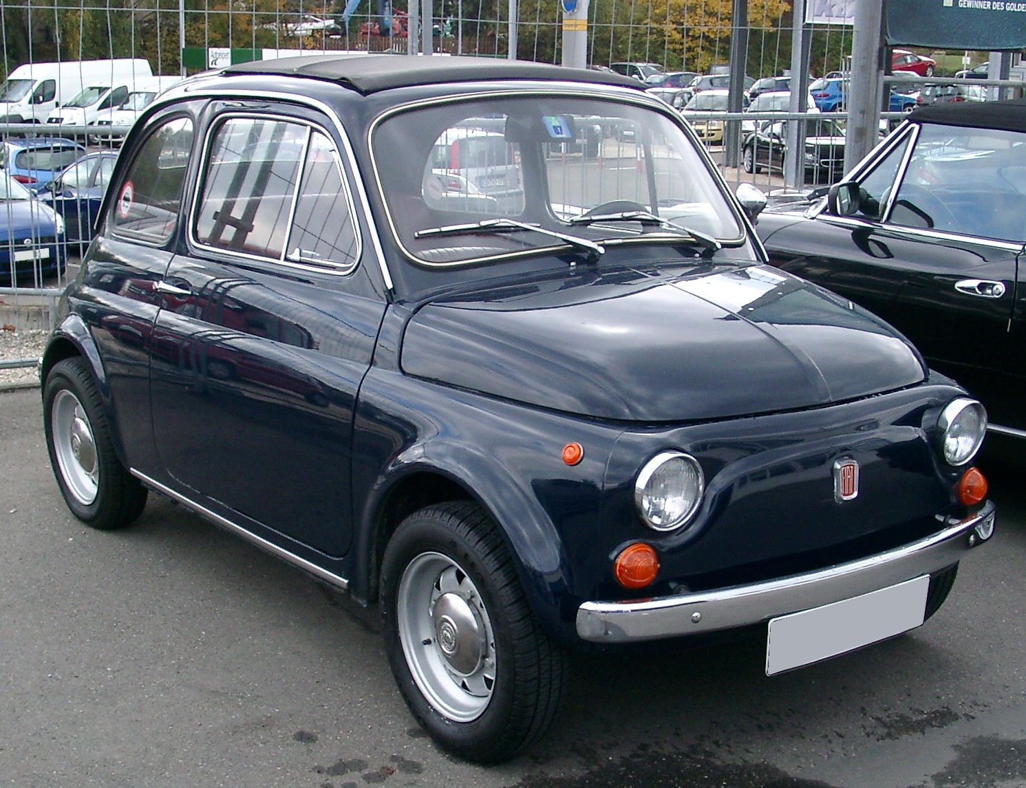 Fiat 500